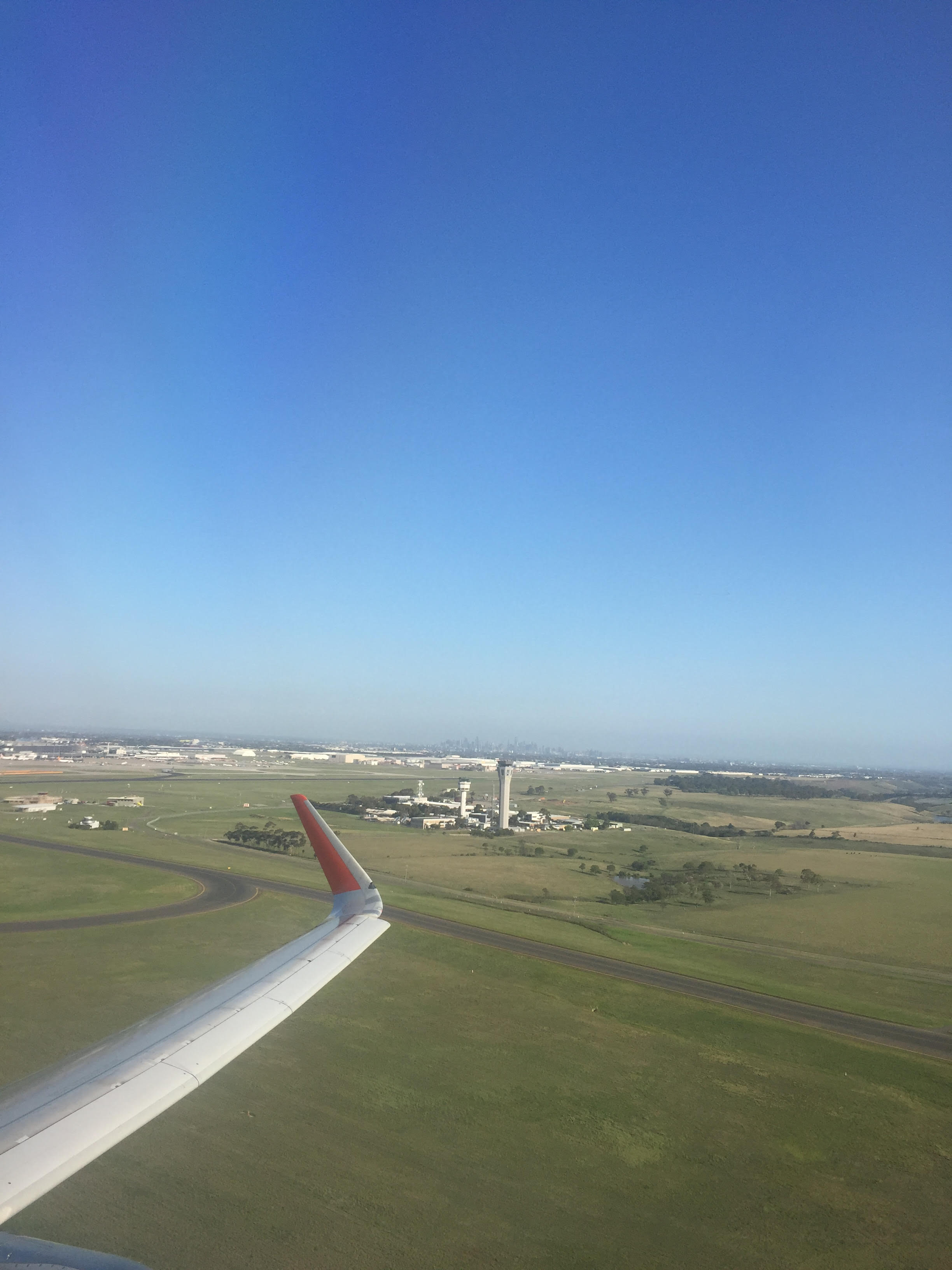 Departing Melbourne Airport from Runway 27